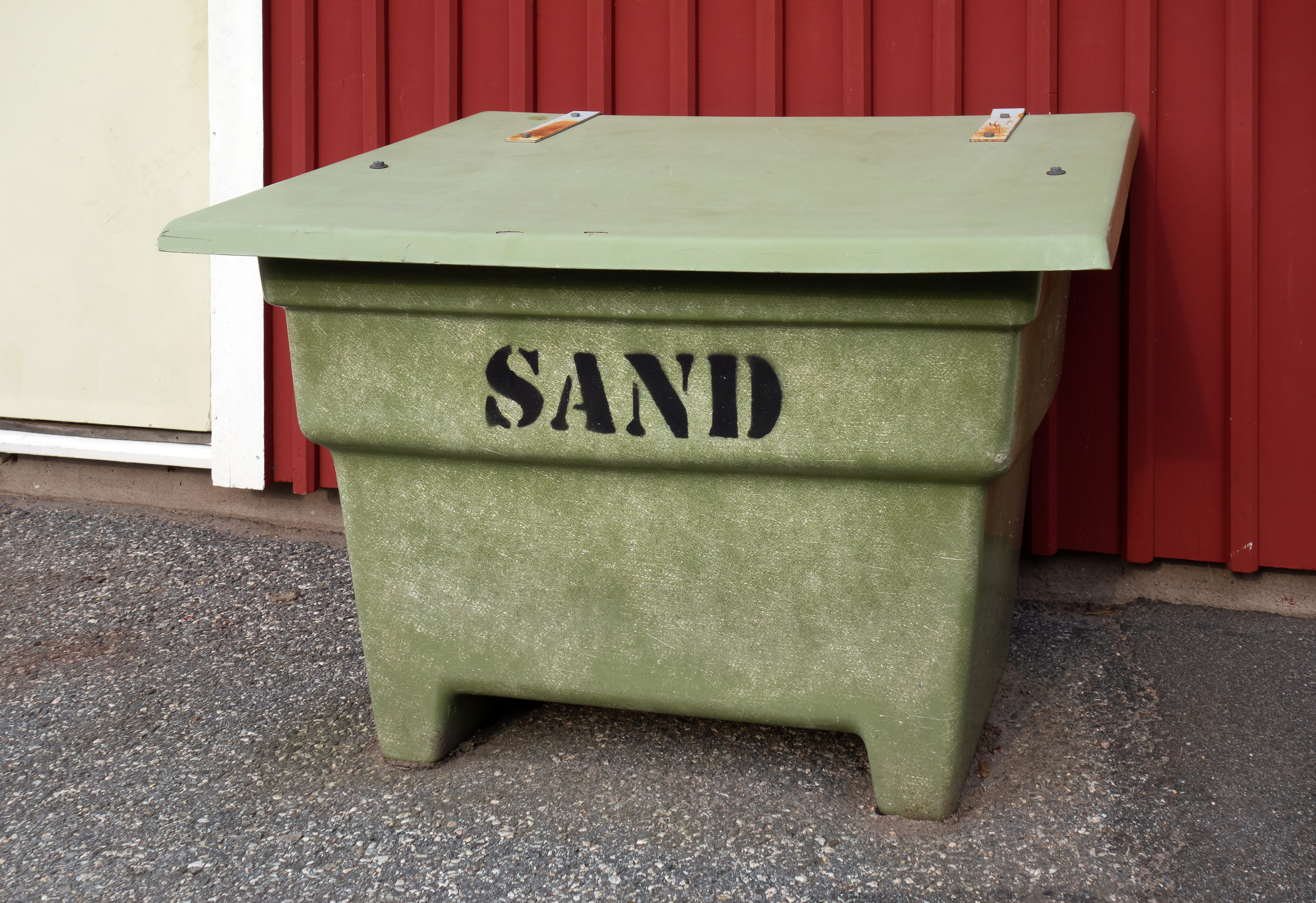 Green fiberglass grit bin containing sand in Brastad, Lysekil Municipality, Sweden.